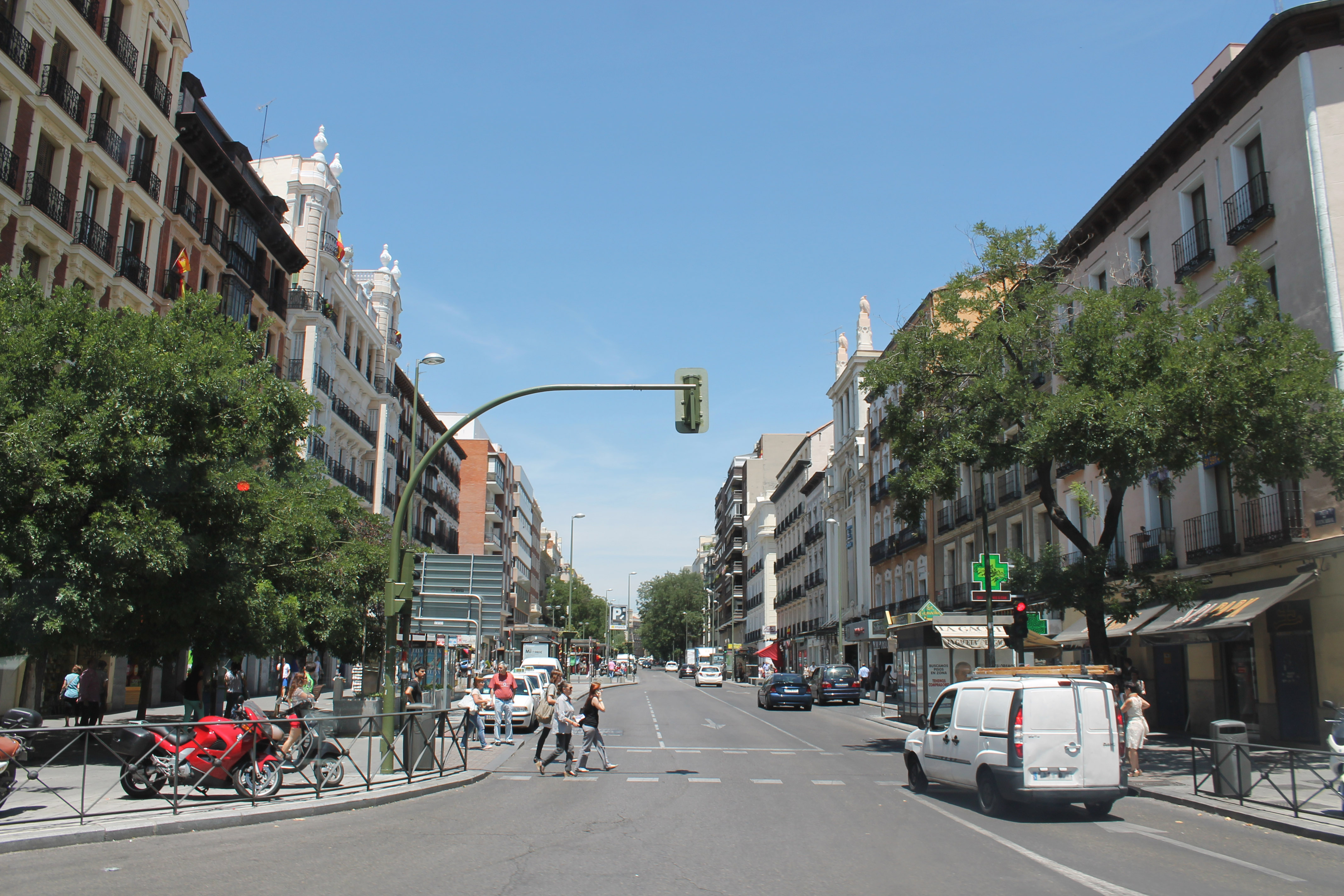 View of Calle de Fuencarral (street) in Madrid (Spain) from Glorieta de Bilbao (square).